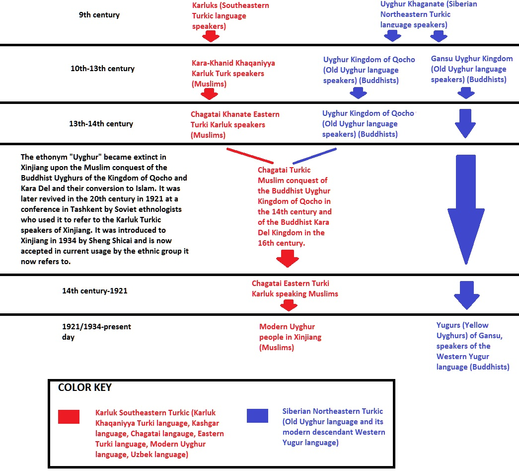 Historical evolution of the Uyghur ethnic group .